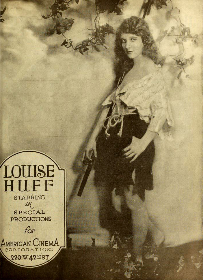 Louise Huff in Moving Picture World, June 1919